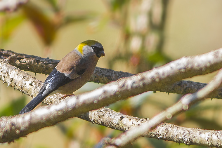 The species Red-headed Bullfinch had been photographed during the birding tour of GoingWild in Pangolakha Wildlife Sanctuary in East Sikkim, India on 12.02.2016.